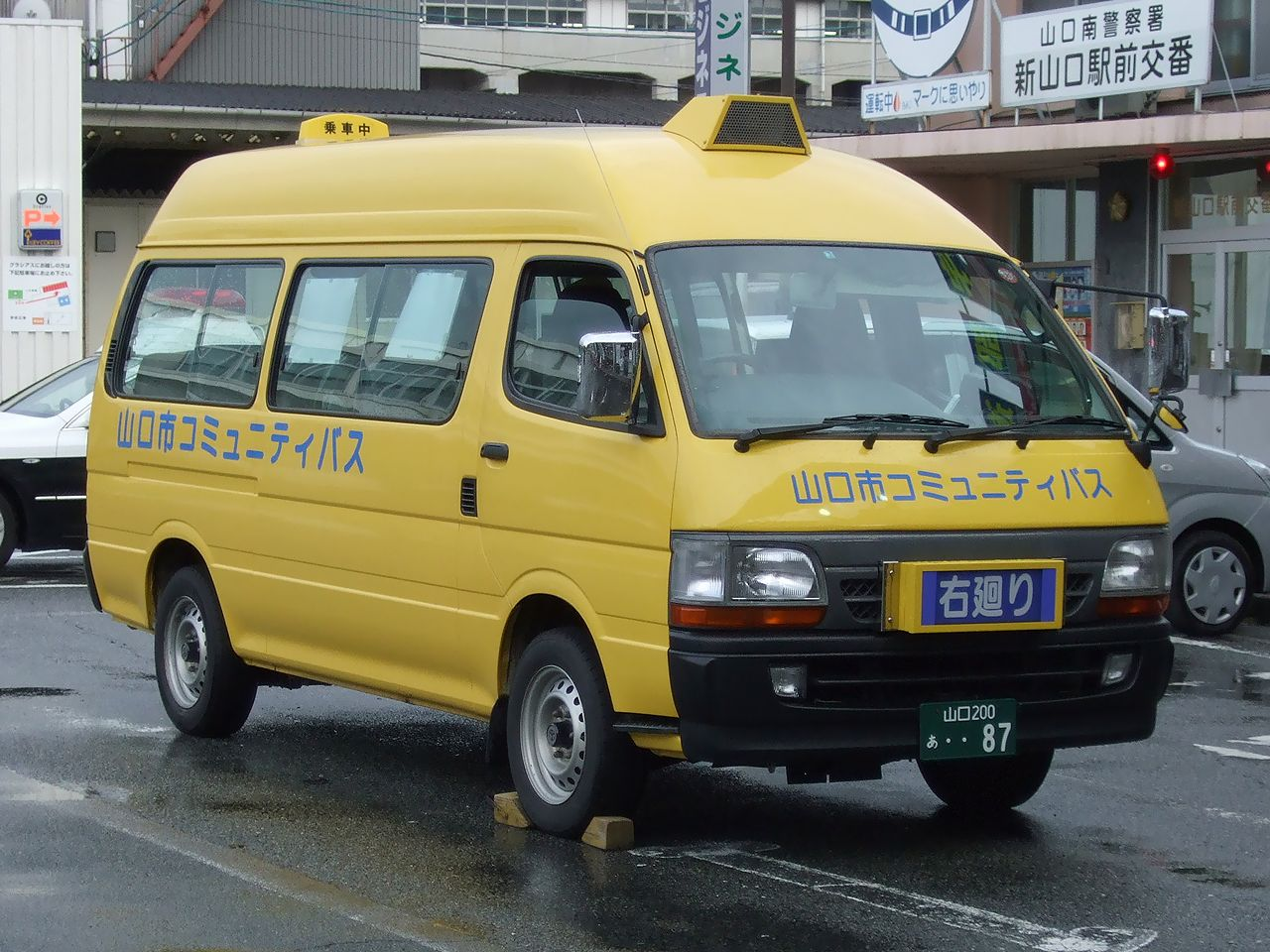 Company:Bocho Kotsu Use:transit bus (Yamaguchi City community bus) Car license:山口200 あ・・87 Chassis manufacturer:Toyota Type:Hiace Location:in Yamaguchi City, Yamaguchi, Japan.